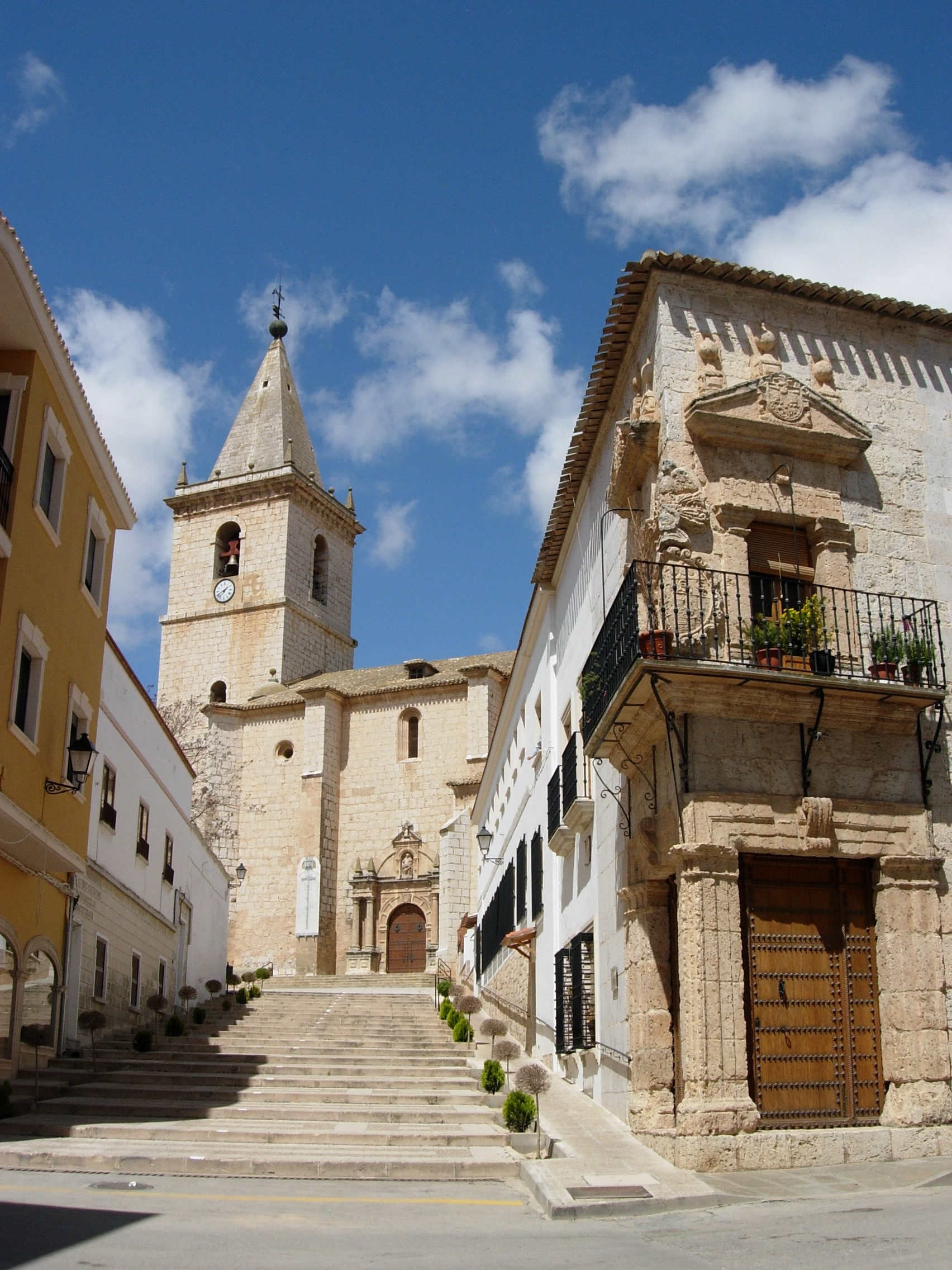 Outside stairs to 15th century church in La Roda - in Castilla-La Mancha.